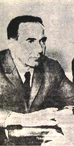 Stane Kavčič (1919-1987), Slovene partisan and communist politician